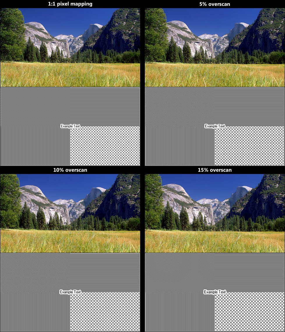 A demonstration of the detail and image loss caused by overscan scaling on fixed-pixel displays. Feel free to make corrections and improvements, but I would rather you upload a new image if you are going to use completely different base images.